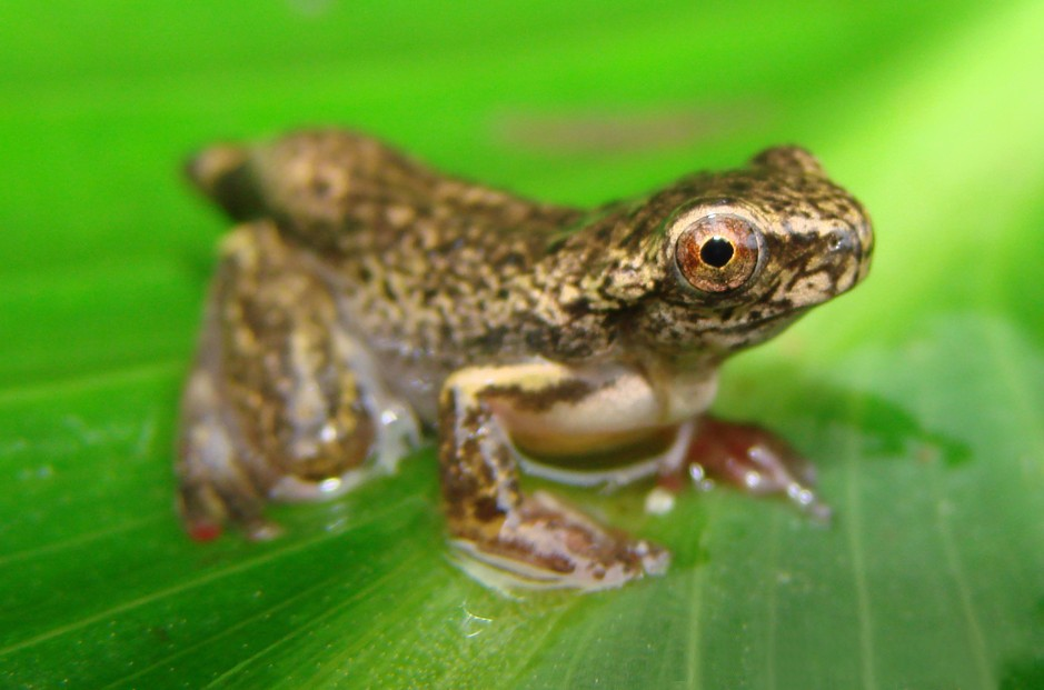 Dendropsophus columbianus